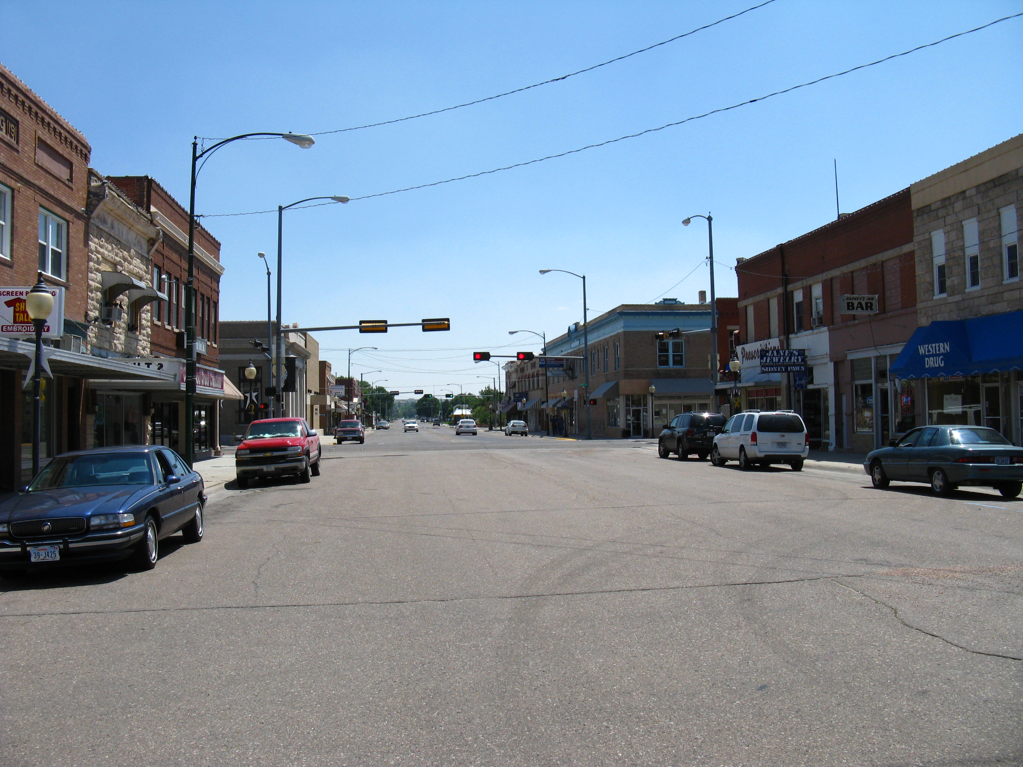 Looking West towards the main intersection in downtown Sidney, Nebraska.